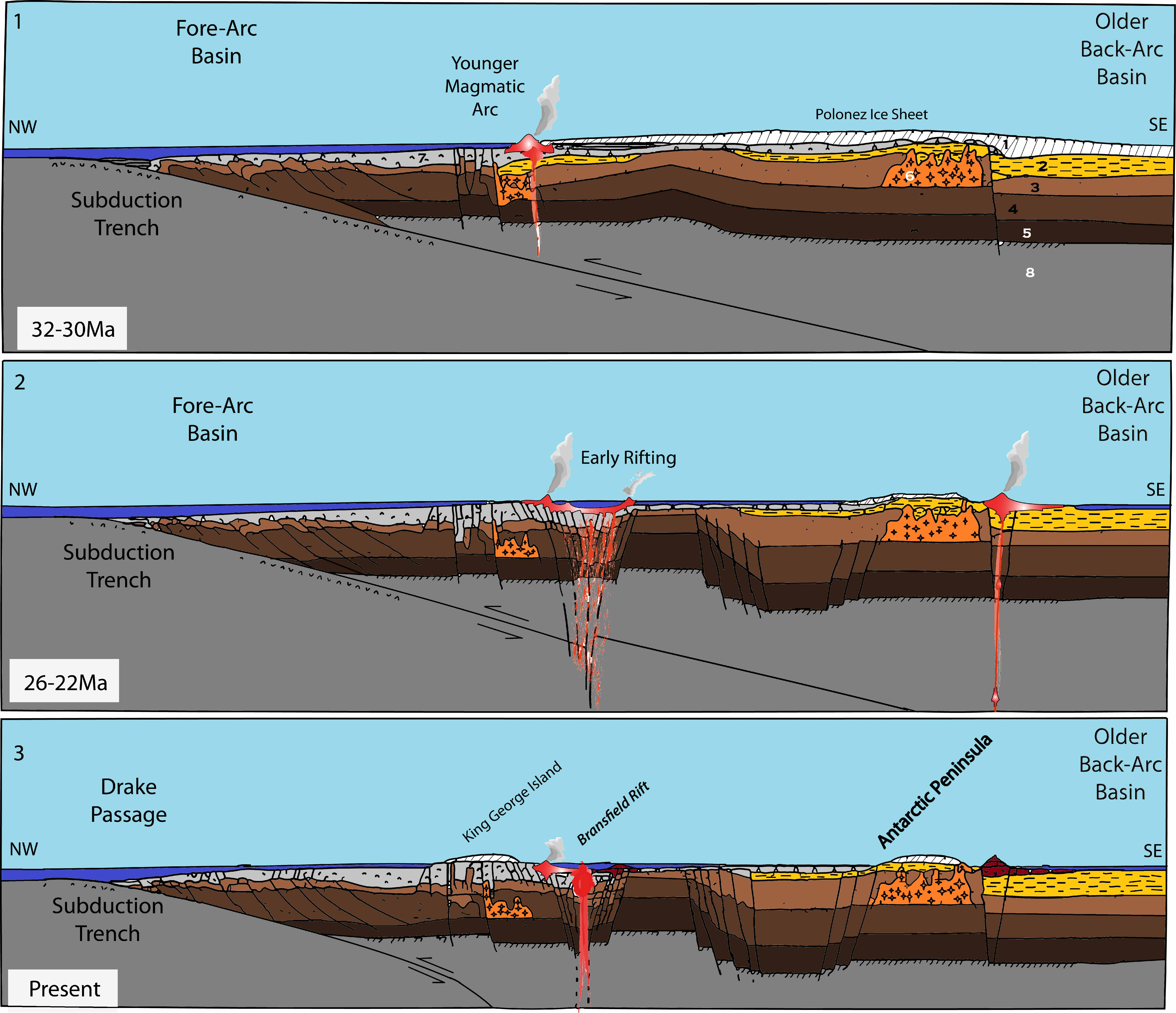 Evolution of the Antarctic Peninsula's subduction zone.